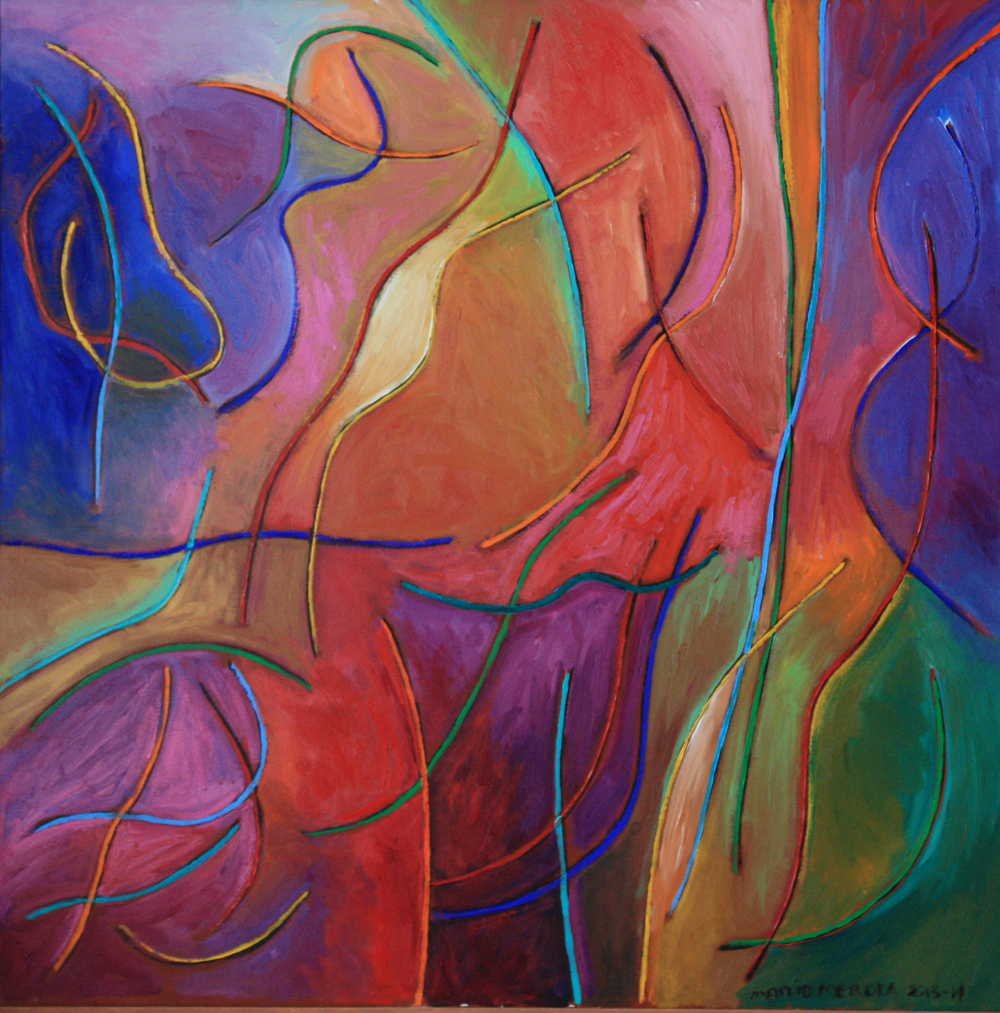 Sound in an open space